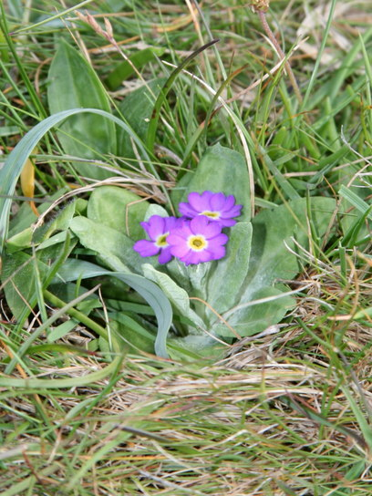 Scottish Primrose The Scottish primrose occurs in just a few locations in northern Scotland - Strathy Point had a large population in 2007.